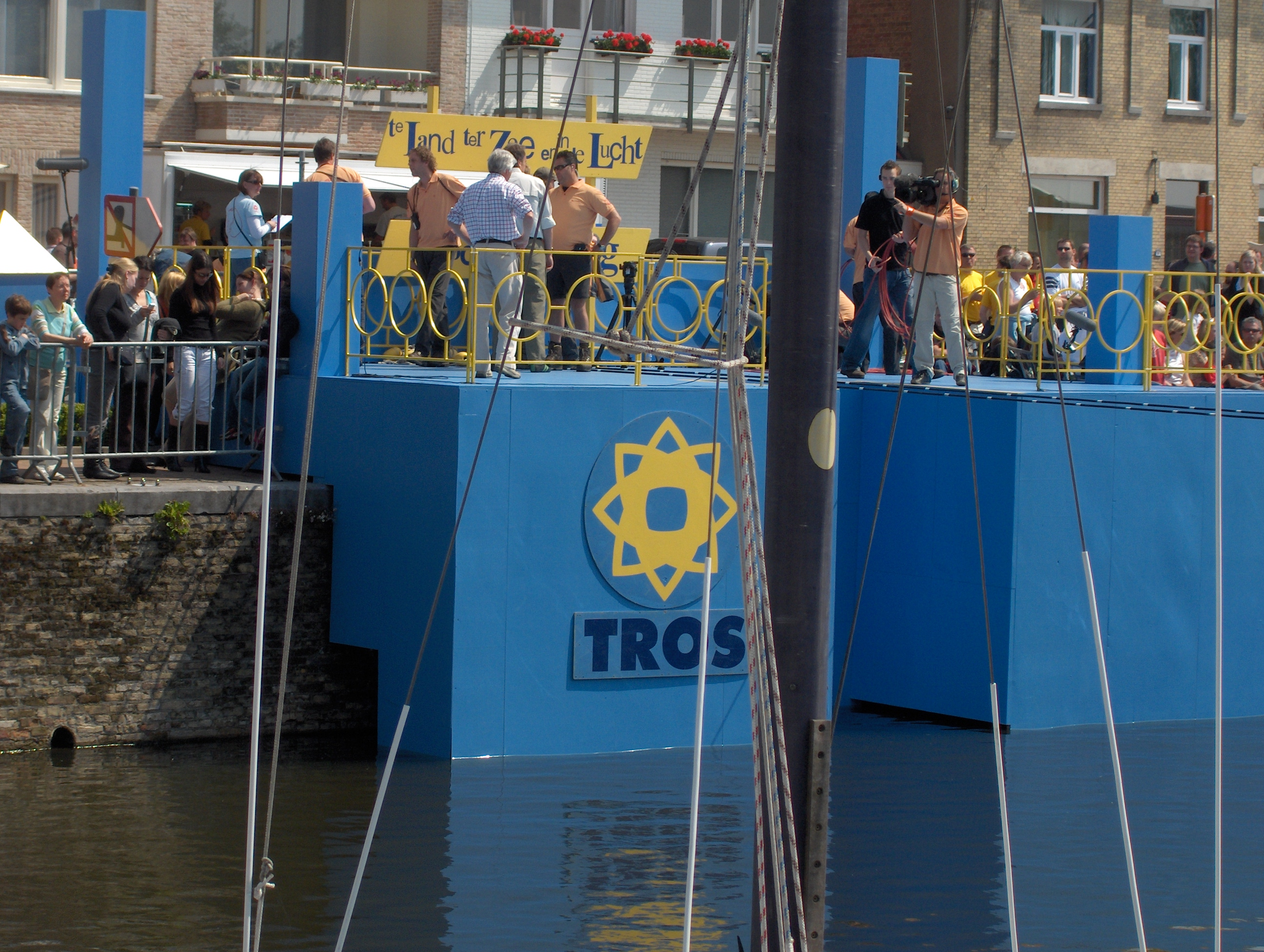 Recording of the Dutch televisionprogram "Te land, ter zee en in de lucht" at Veurne (Belgium).